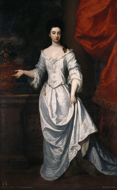 Margaret Cecil, Countess of Ranelagh (1672-1728). Oil on canvas, 232.9 x 143.6 cm.